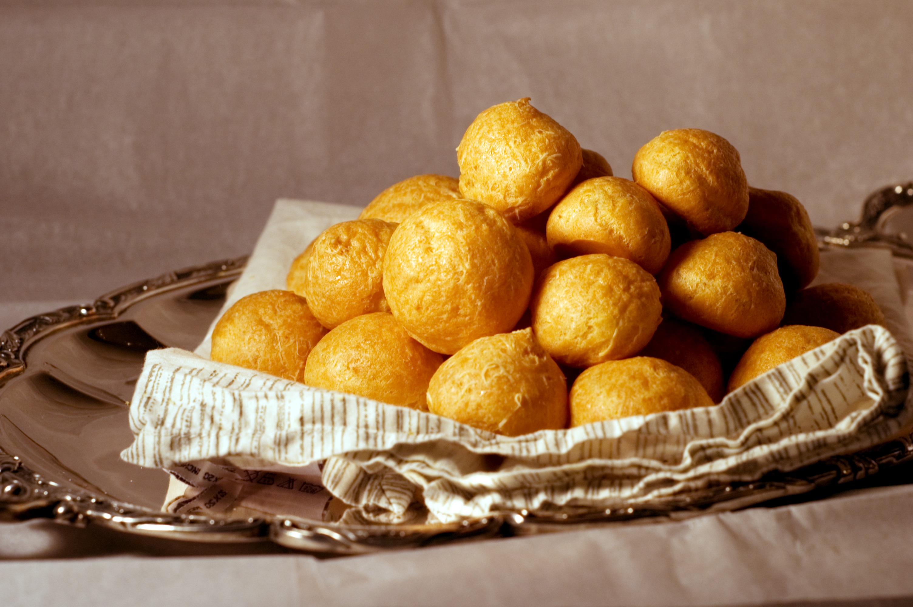 Gruyère Cheese Gougères (cheese in chou pastry), a specialty from Burgundy, France.